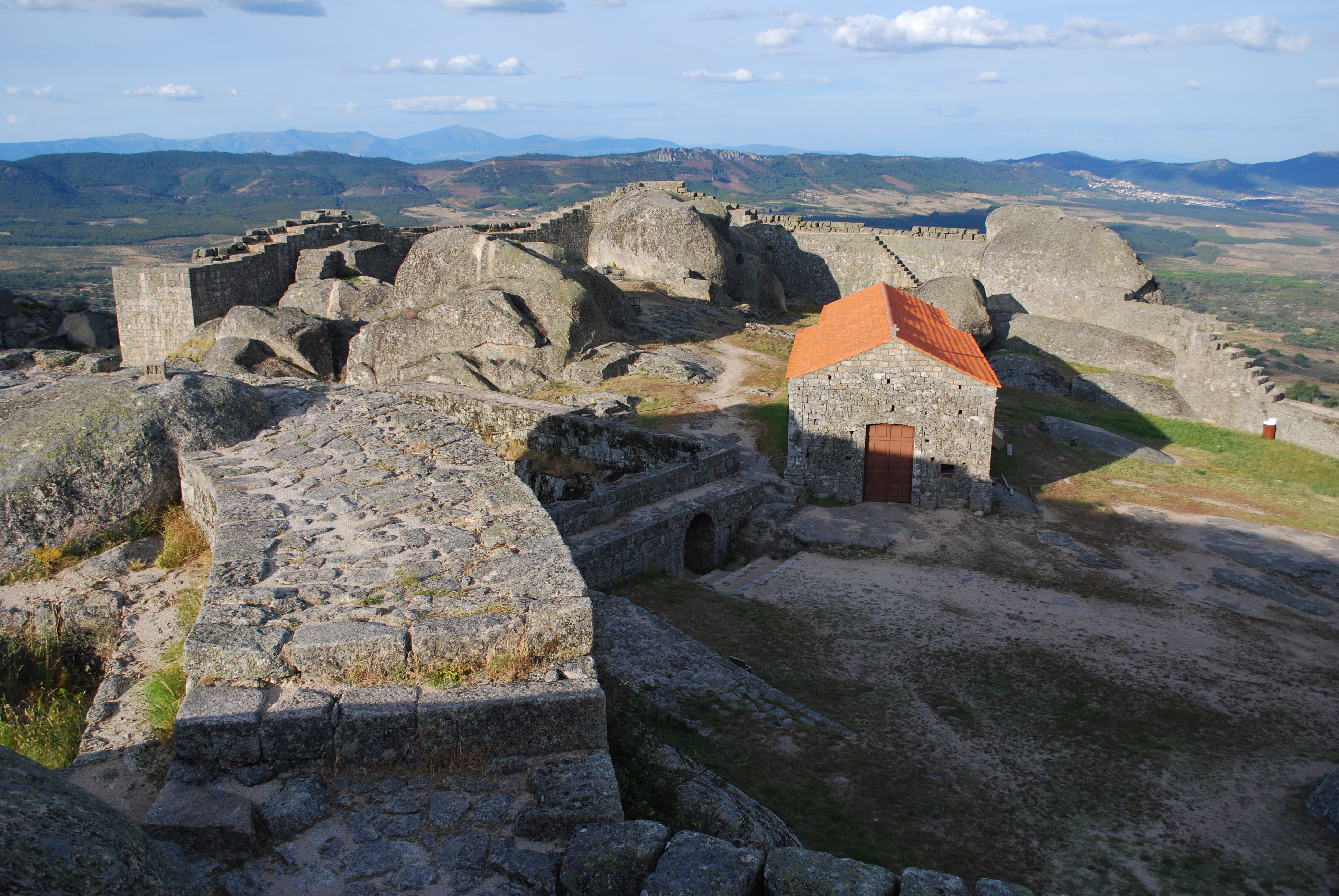 This monument is classified as Monumento Nacional. This file was uploaded for Wiki Loves Monuments in Portugal with the unique identifier 69865.